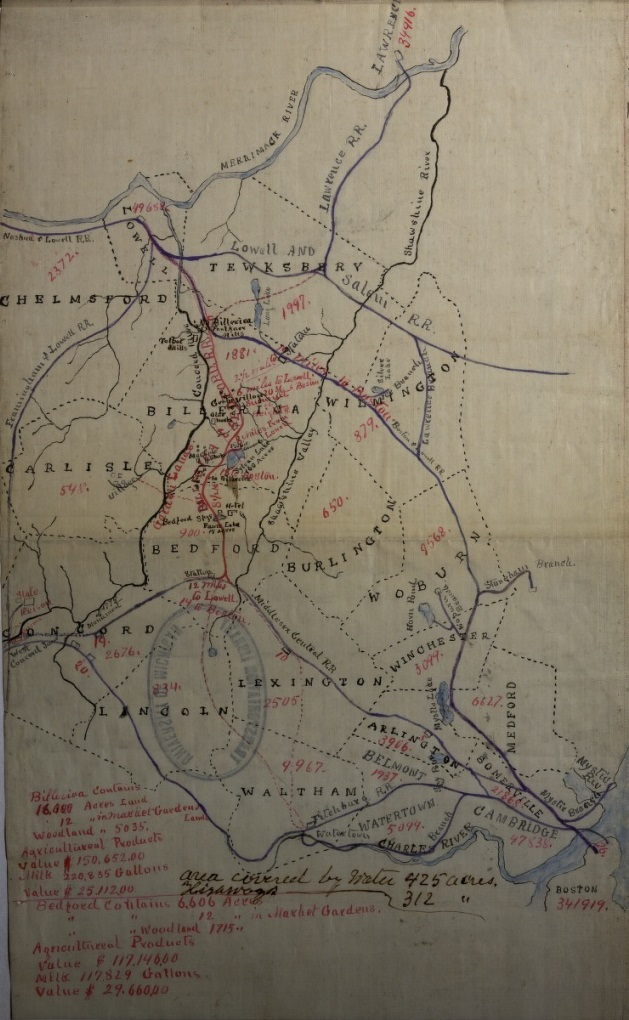 George E. Mansfield (1876-1877): Map of the Billerica and Bedford Railroad